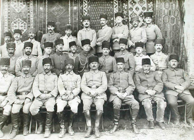 Kâzım Karabekir Pasha (commander of the XV Corps) and his staff at Erzurum in 1919